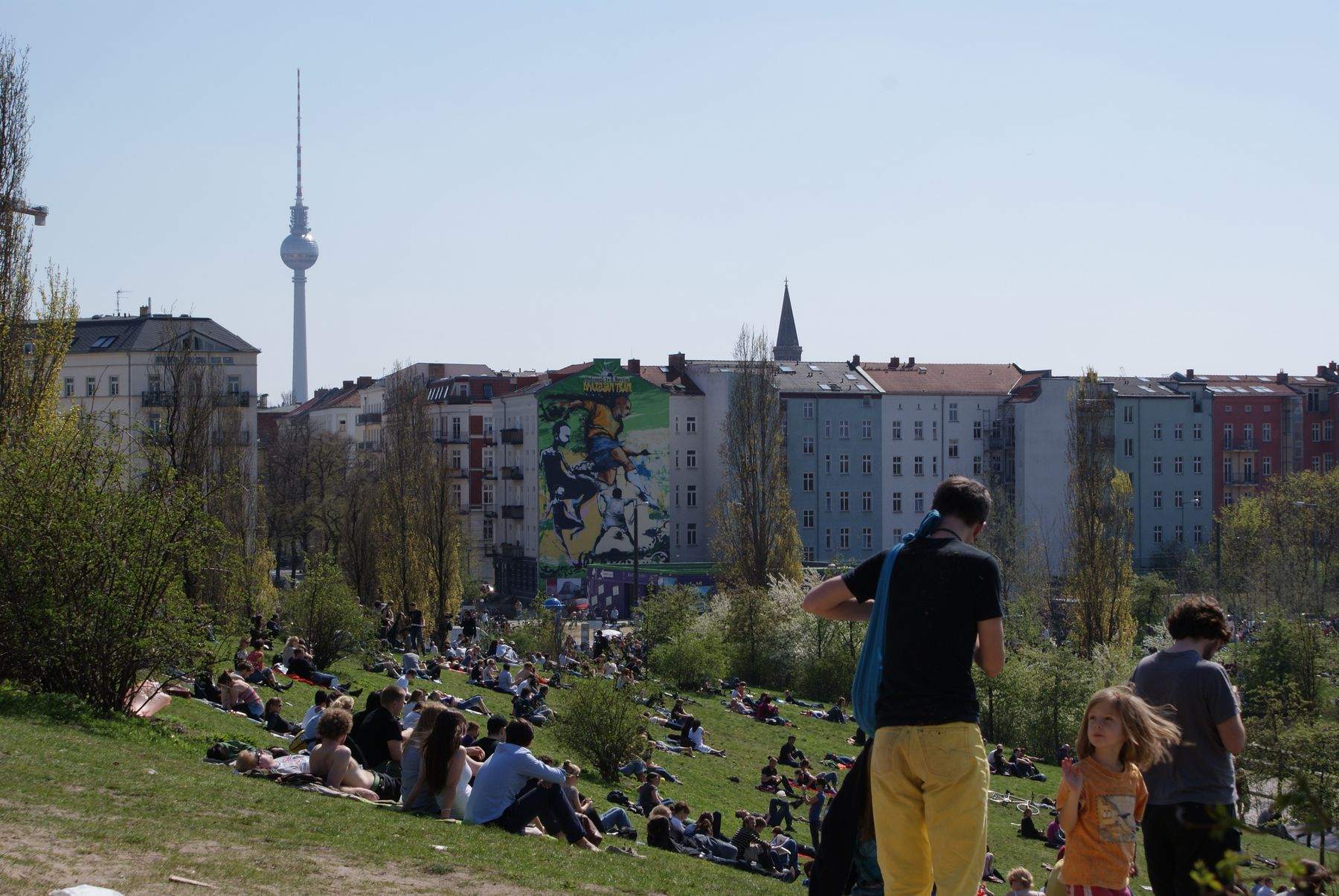 View on the Mauerpark with the TV Tower on the background